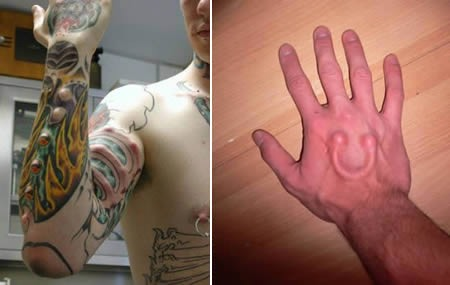 Subdermal implant (Body modification)